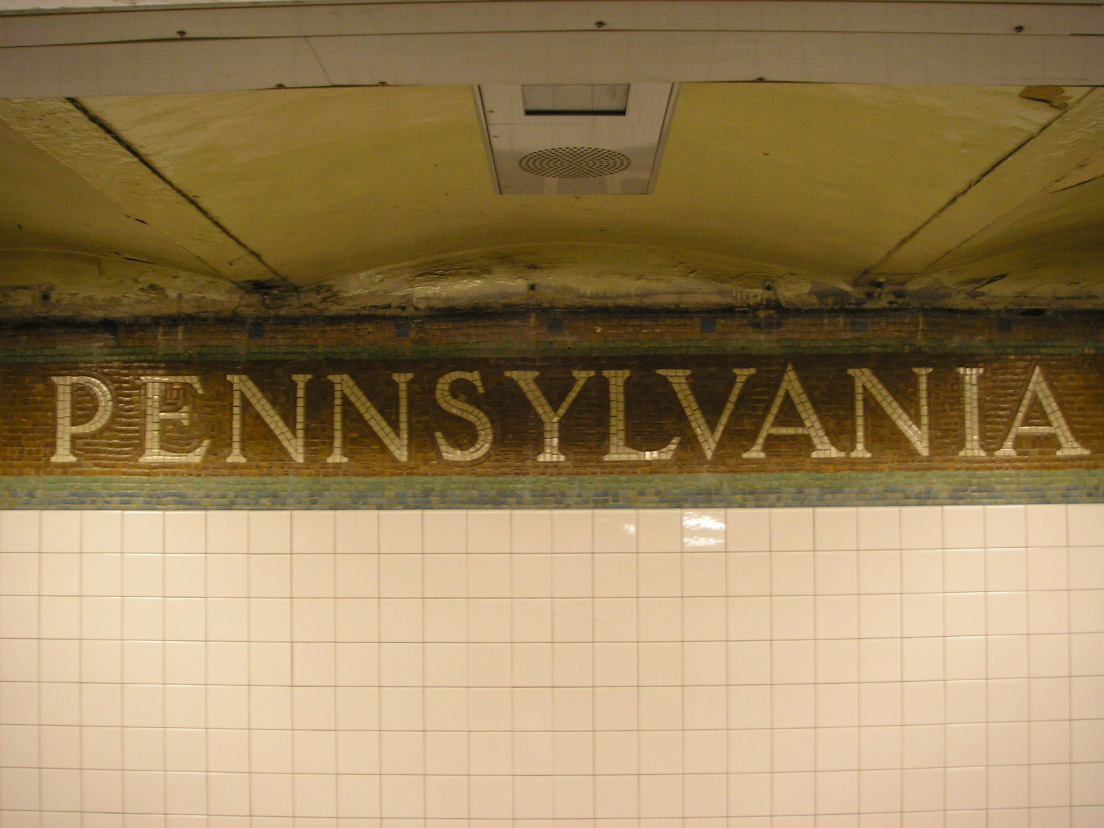 Mosaic sign on Penn Station subway station in New York City.